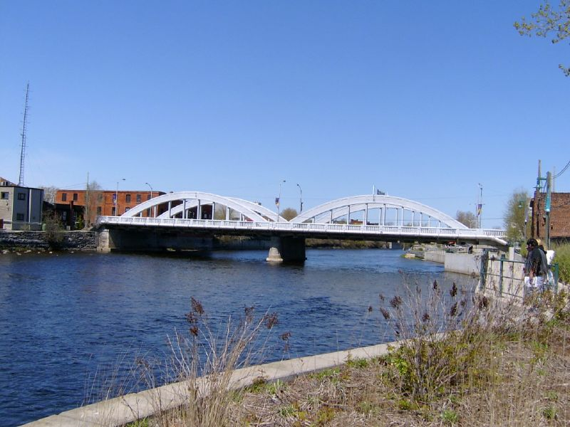 Bridge over the Moira River, downtown Belleville built in 1930